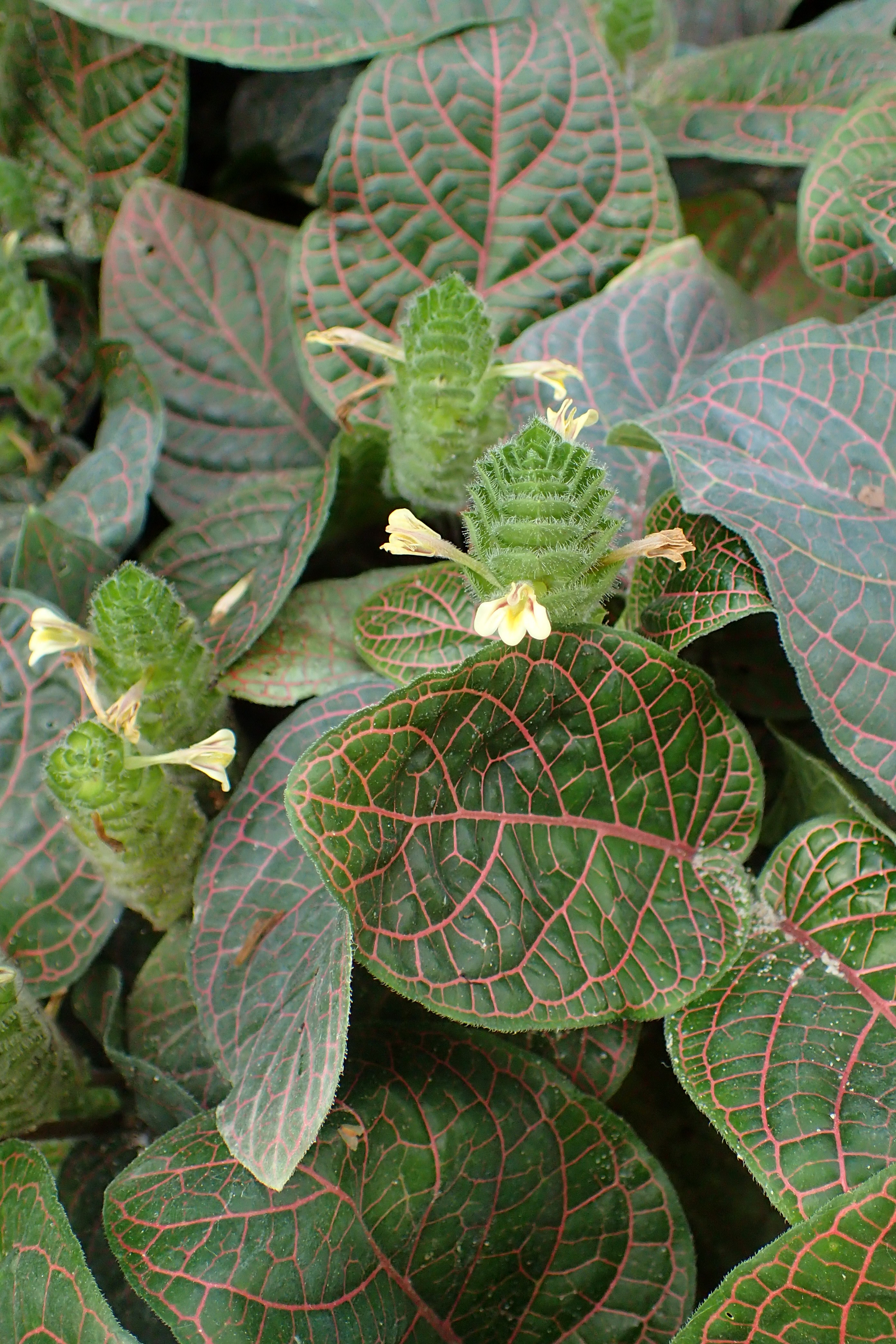 Fittonia gigantea in PAN Botanical Garden in Warsaw